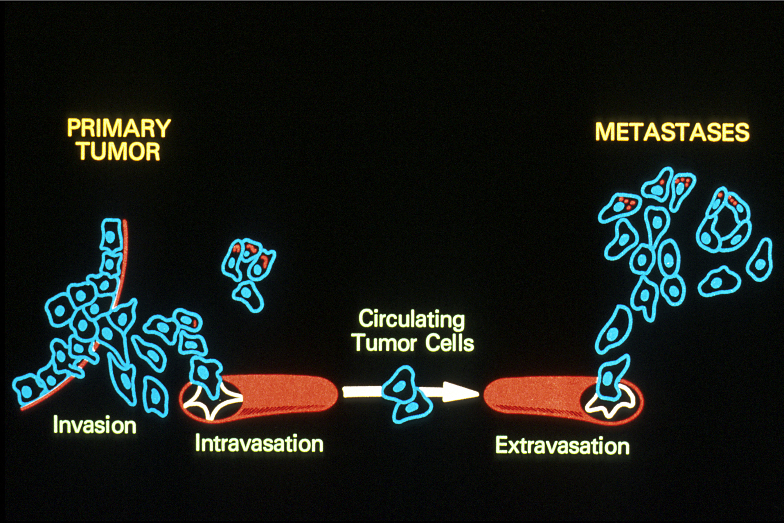 Title Metastasis Illustration Description The metastatic colony is the end result of a complicated multistep process. The tumor cells from a primary tumor invade local tissue and gain access to the venous circulation (intravasation). Circulating tumor cells, singly or in clumps, are transported to target organs where they lodge in the capillary bed. Thus arrested, these tumor cells penetrate the endothelial cell lining and the underlining basement membrane to exit the circulation (extravasation). They then grow as a metastatic colony, a development that requires new blood vessels (neovascularization). To complete this multistep process, the tumor cells must overcome the host's defenses. Topics/Categories Historical, Graphics Type Color, Illustration Source National Cancer Institute